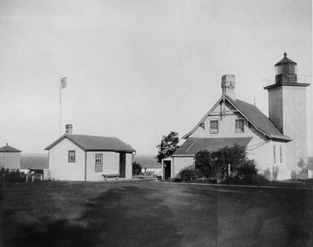 Public Domain statement here; The Eagle Bluff Light, also known as Eagle Bluff lighthouse, is a lighthouse located near Ephraim in Peninsula State Park in Door County, Wisconsin.